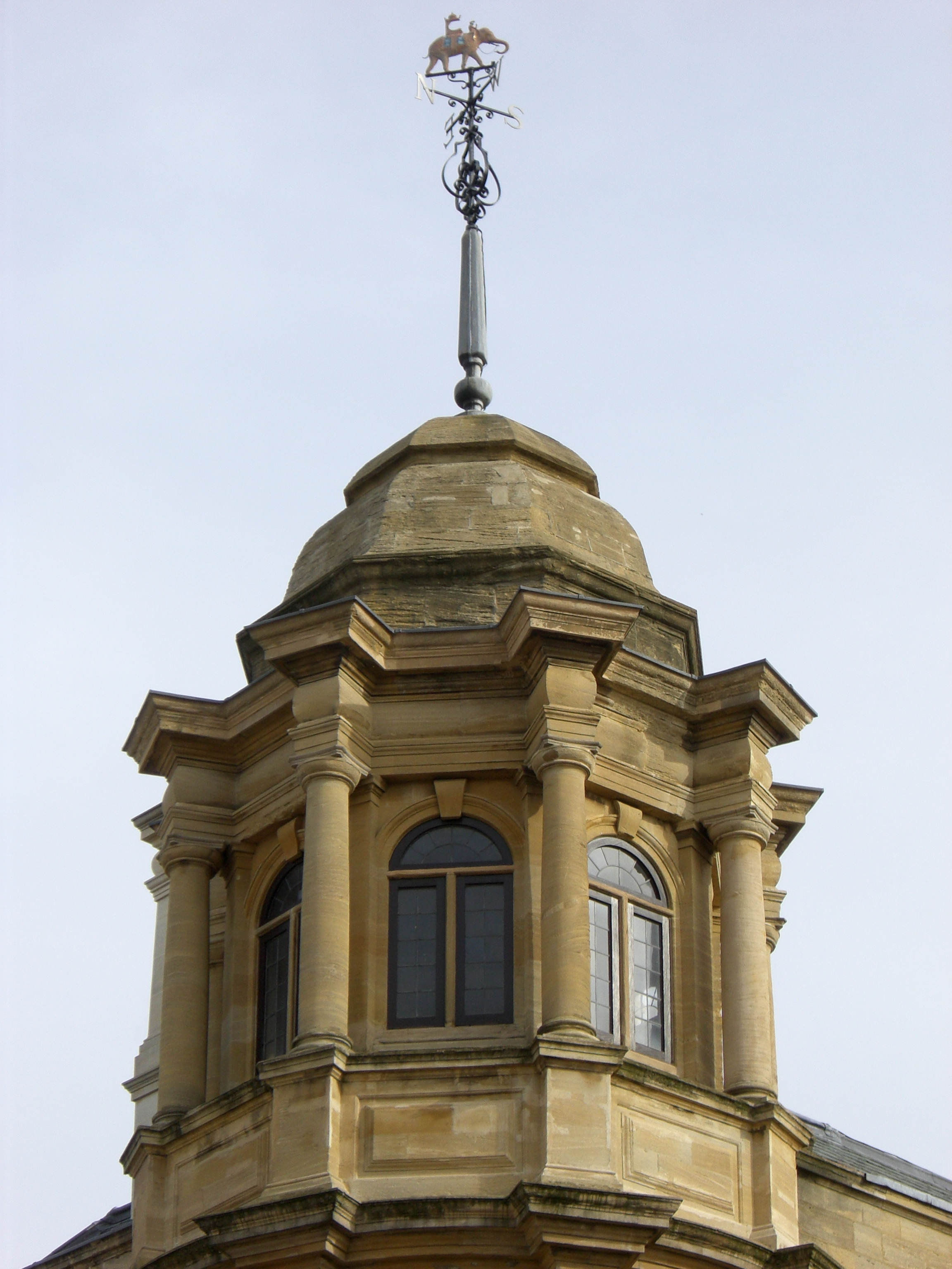 The corner cupola of the Indian Institute, Oxford. Note the weathervane.